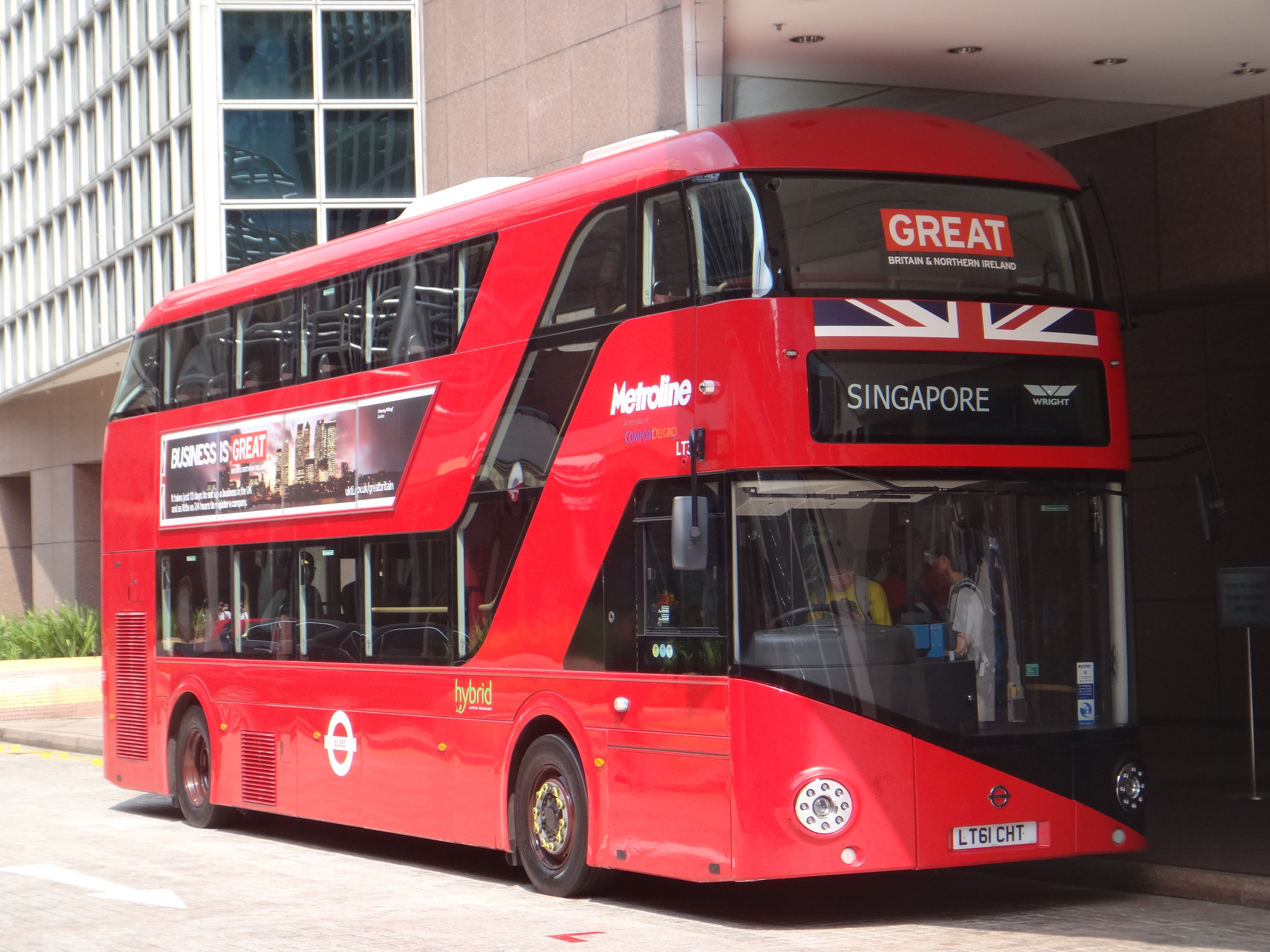 New Bus for London LT3 (on display at Conrad Hotel, Singapore as part of its World Tour. The Metroline decal was applied to LT3 specifically for Singapore's tour.